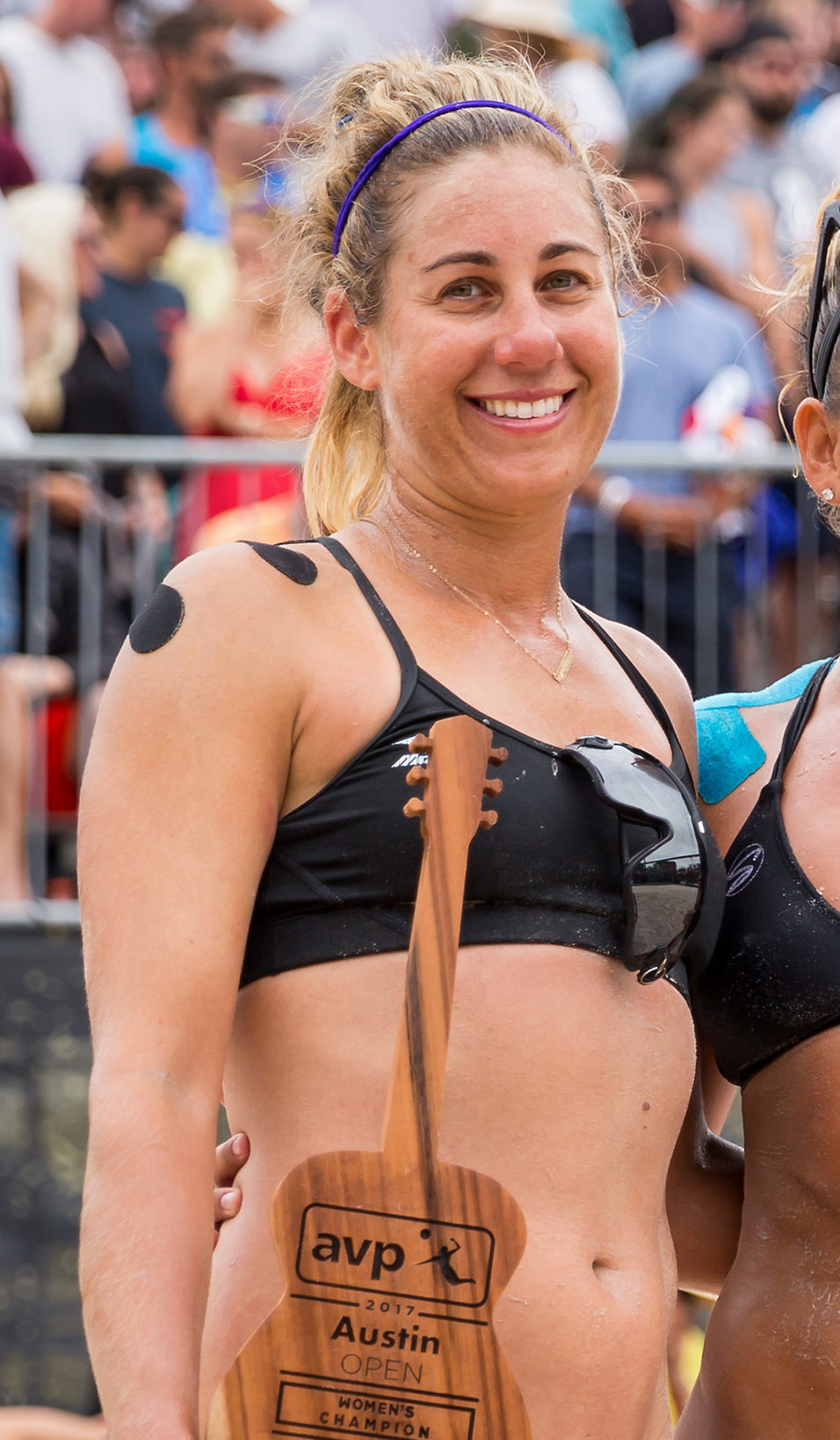 April Ross and Whitney Pavlik at the AVP Austin Open professional beach volleyball tournament in Austin, Texas on May 21, 2017.